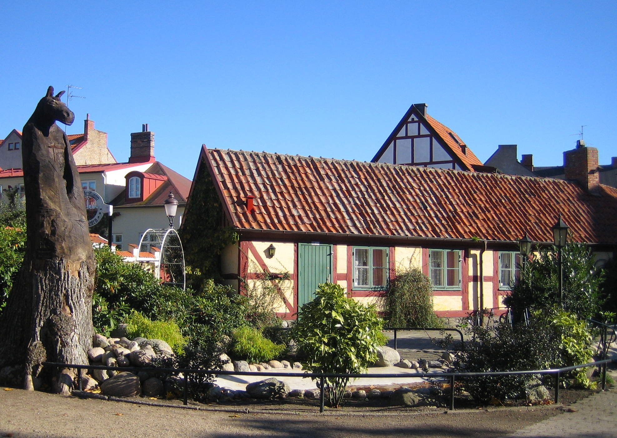 Bäckahästen, Ystad, Sweden.